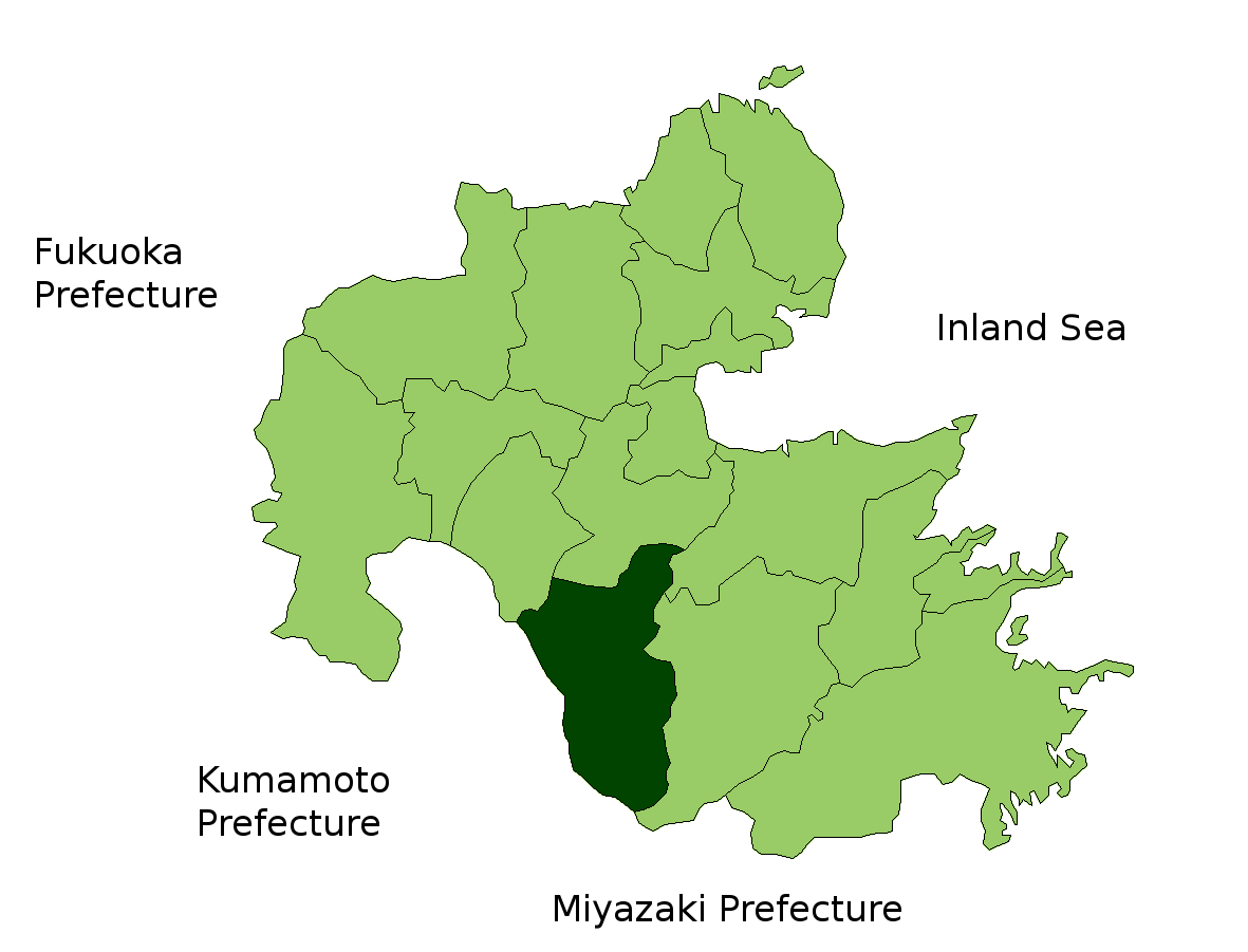 Location Map of Taketa in Oita Prefecture, Japan